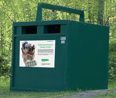 Carton collection container